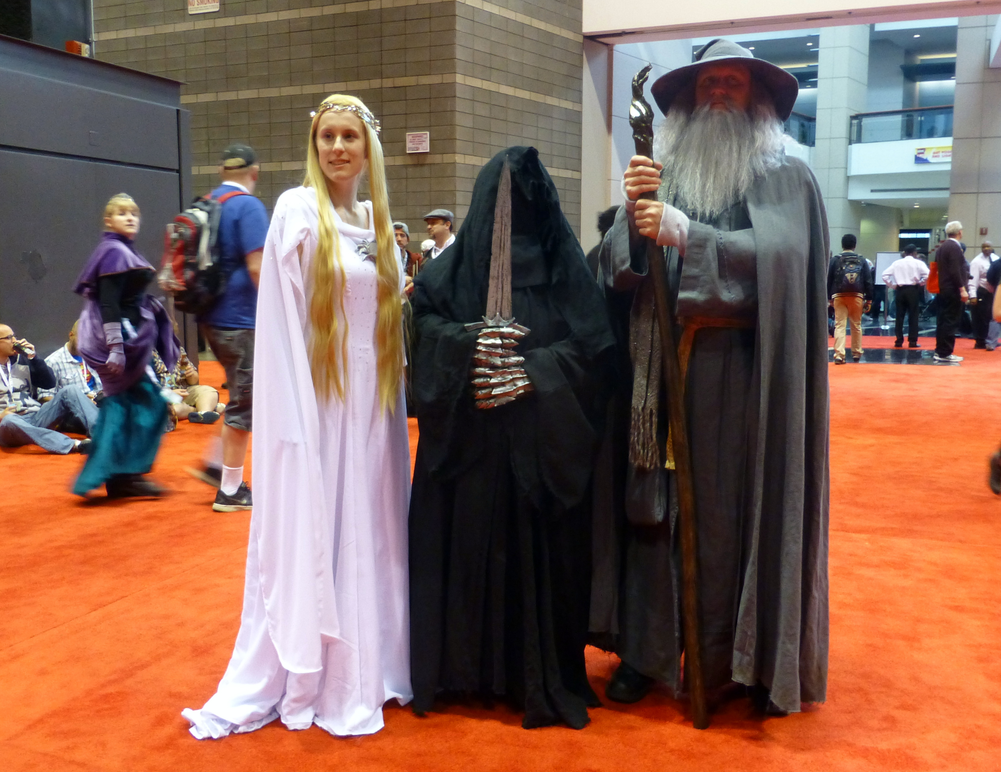 Galadriel, Nazgul, and Gandalf Cosplay at Chicago Comic & Entertainment Expo (C2E2) 2015.